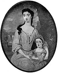 Lady Henrietta Harley with her daughter Margaret, later Duchess of Portland by Bernard Lens, 1717.